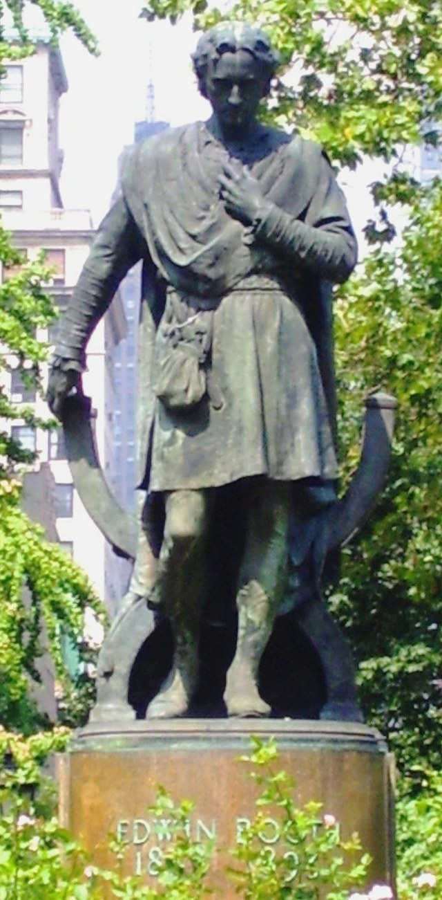 Statue of actor Edwin Booth by Edmond T. Quinn (1916), in Gramercy Park, Manhattan, New York City. Booth lived nearby at #16 Gramercy Park (South).